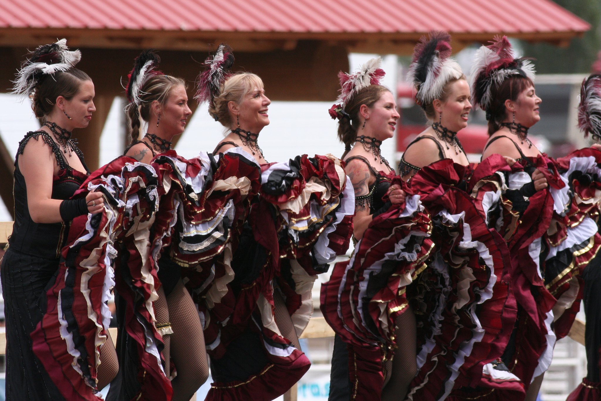 Can-can ladies in traditional attire